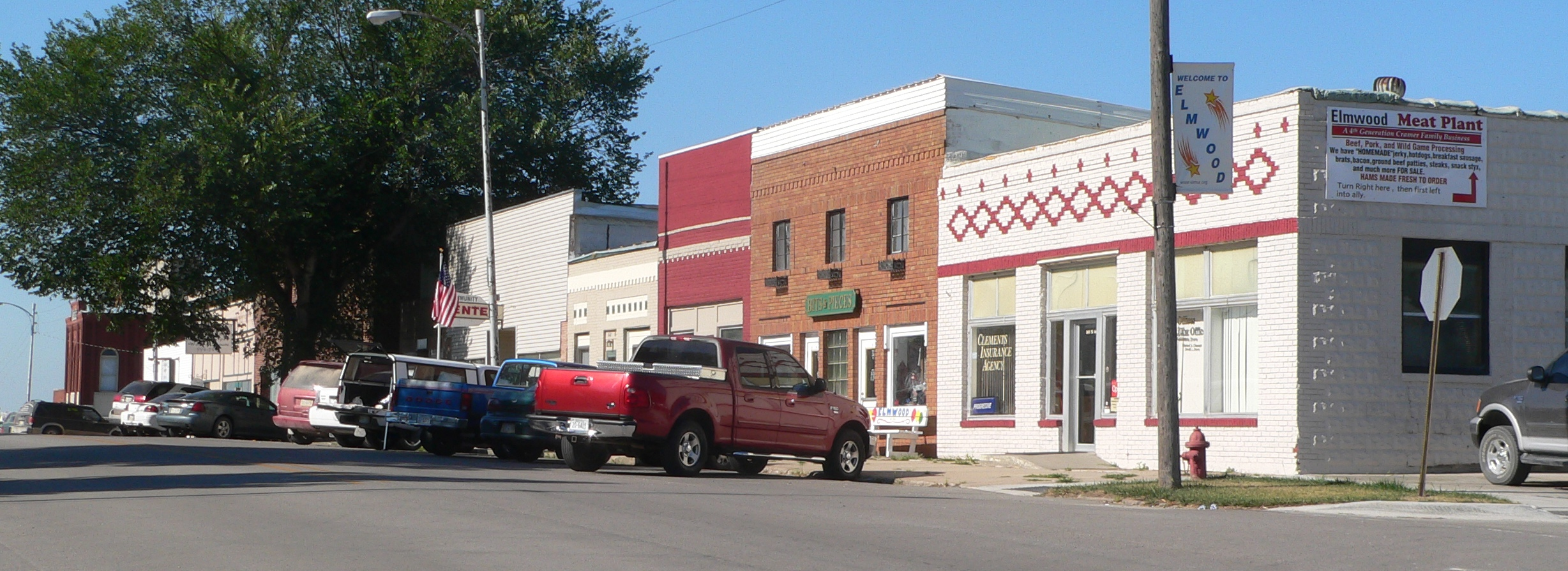 Downtown Elmwood, Nebraska: west side of 4th Street, facing southwest from about E Street.